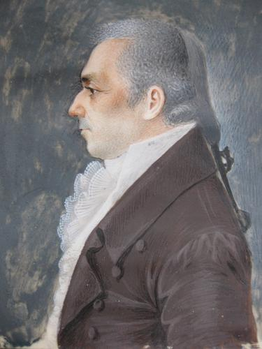 Possible portrait of the German philosopher Gottlob Ernst Schulze (1761–1833).